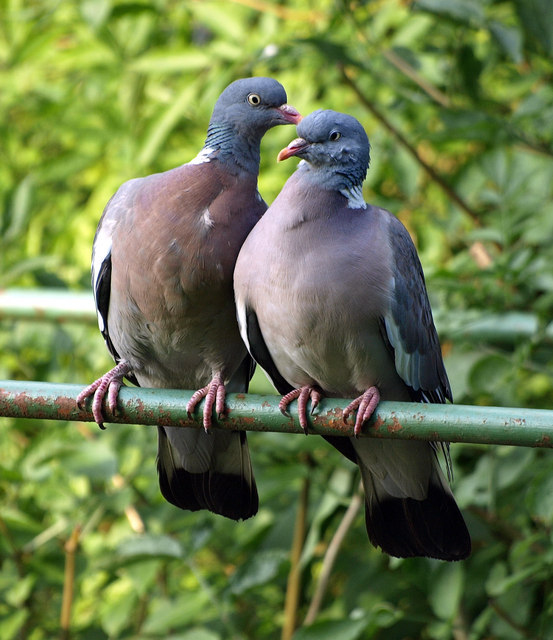 Two Common Wood Pigeon in Hedon, East Riding of Yorkshire, England. These two are perched on the footbridge over Burstwick Drain on the Love Lane bridleway.